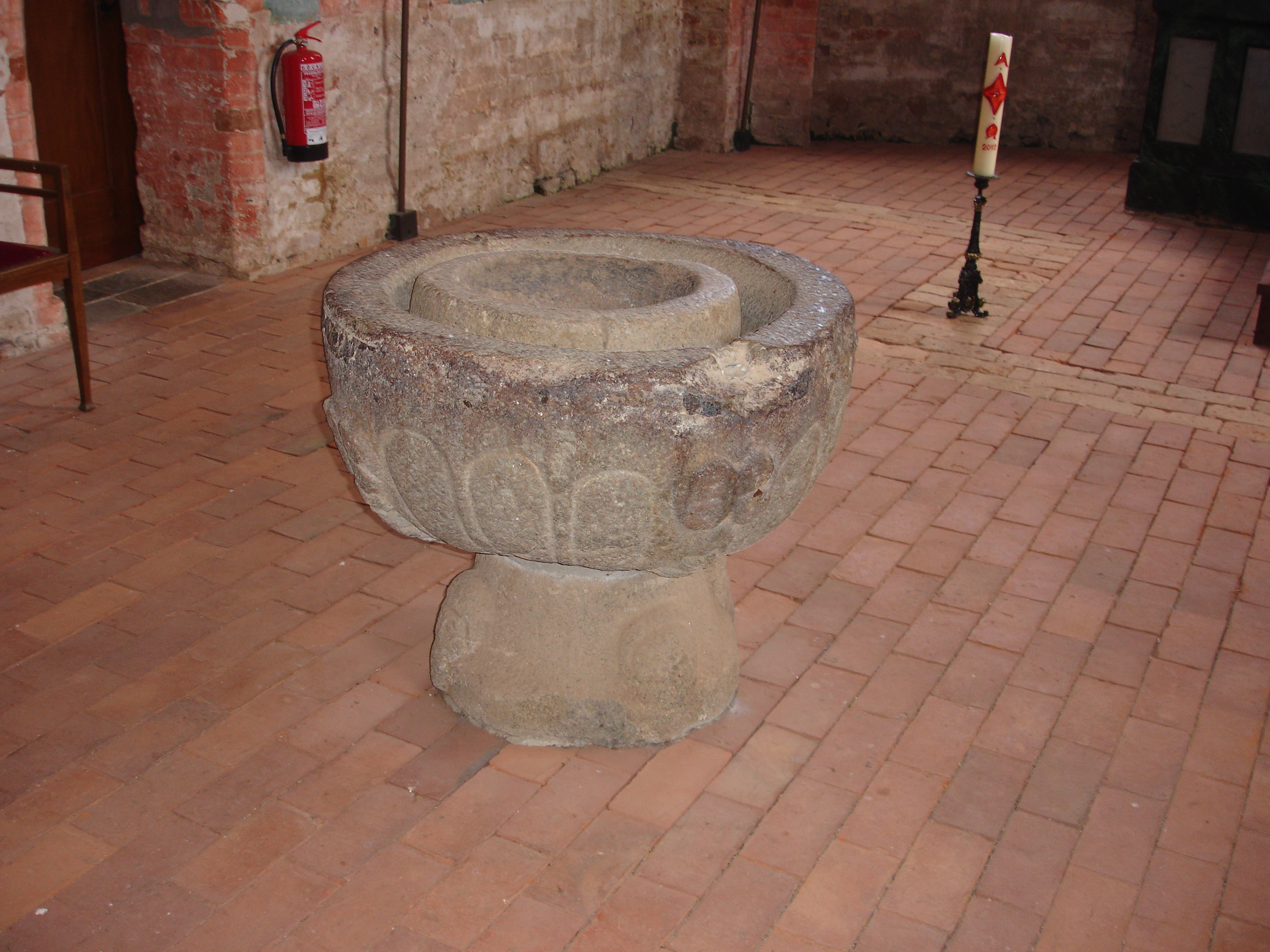 Church in Hohenkirchen, district Nordwestmecklenburg, Mecklenburg-Vorpommern, Germany